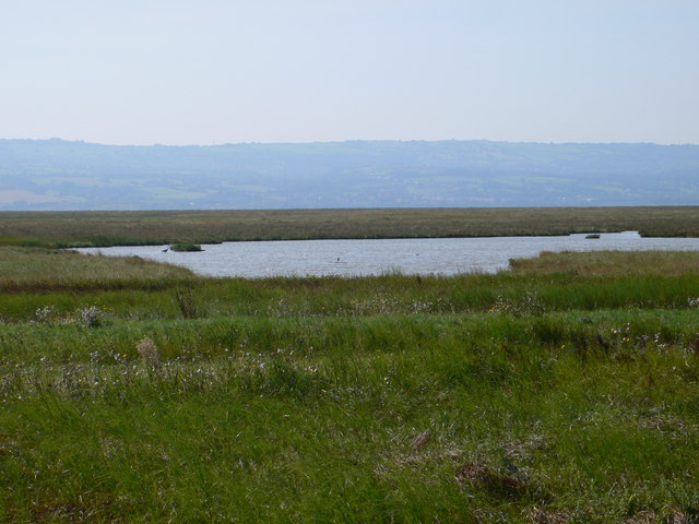 Pond in the silted River Dee